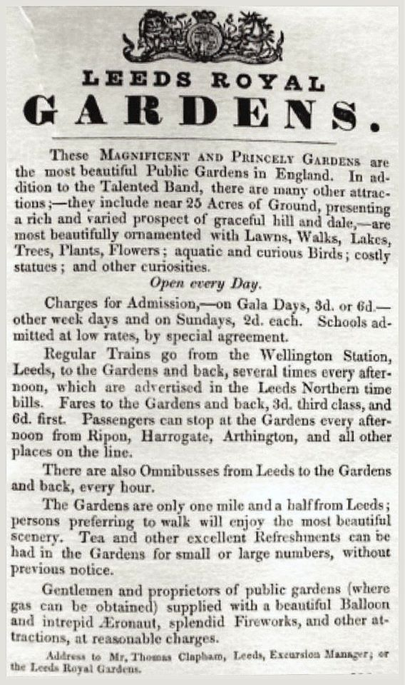 Advertisement for Leeds Royal Gardens, c1848-1858